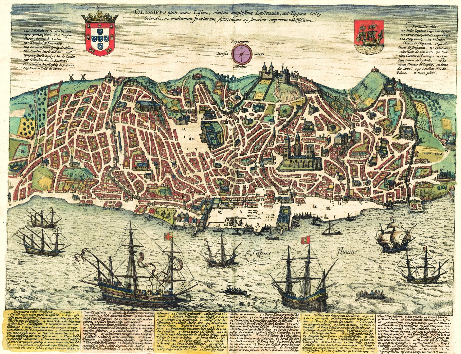 16th-century Engraving of Lisbon, Portugal.